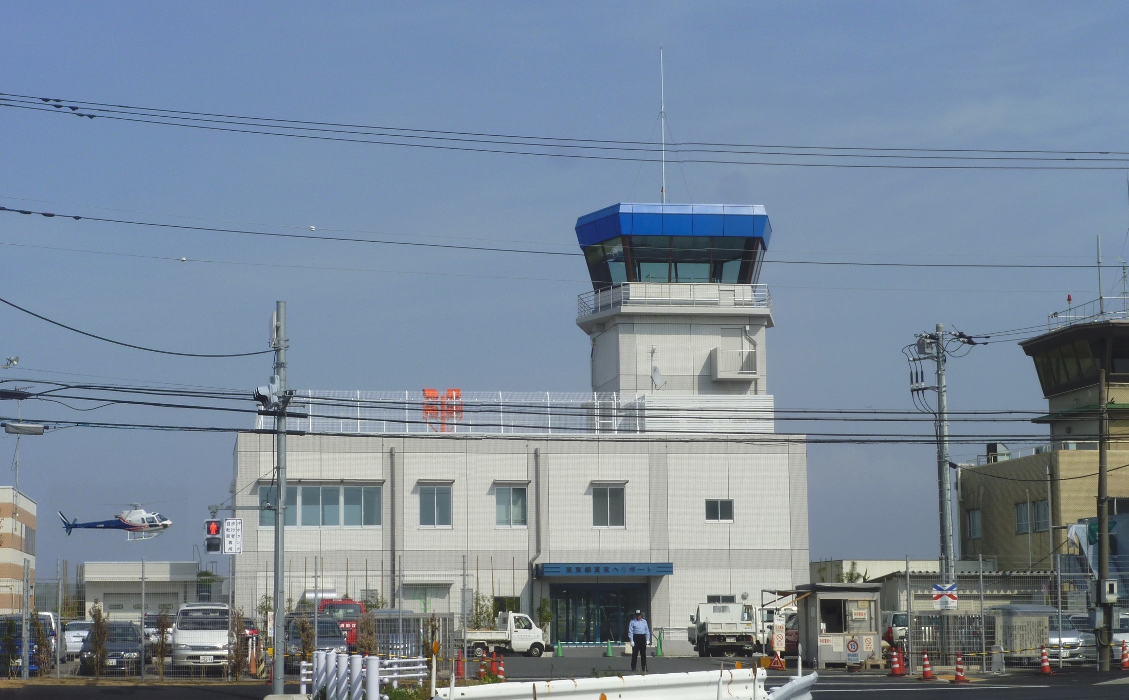 Tokyo Heliport (東京へリポート Tōkyō Heripōto) is a heliport in Kōtō, Tokyo, Japan, mainly used for chartered flights in the Greater Tokyo Area. This image was stitched together from two images in order to give a larger field of view. The helicopter was actually in the original shot (lucky shot!) but it has been touched up in the stitched image so that it shows up clearly. This new image clearly shows the buildings have changed since the last image uploaded to Commons.